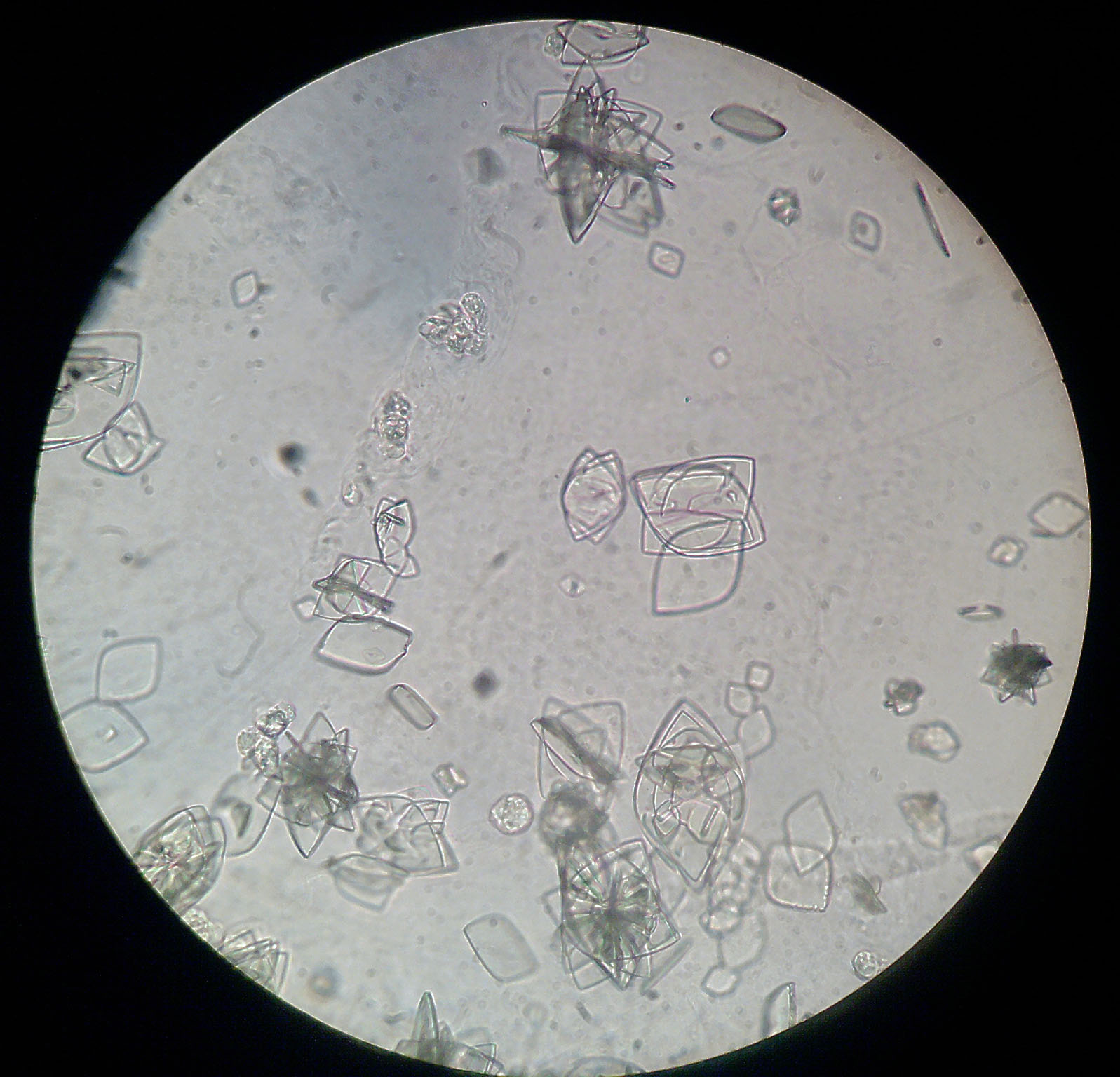 Uric acid cristals in a sample of urine from a patient with leukemia.